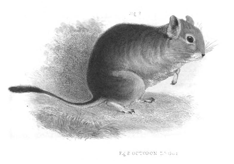 Octodon degus by Waterhouse